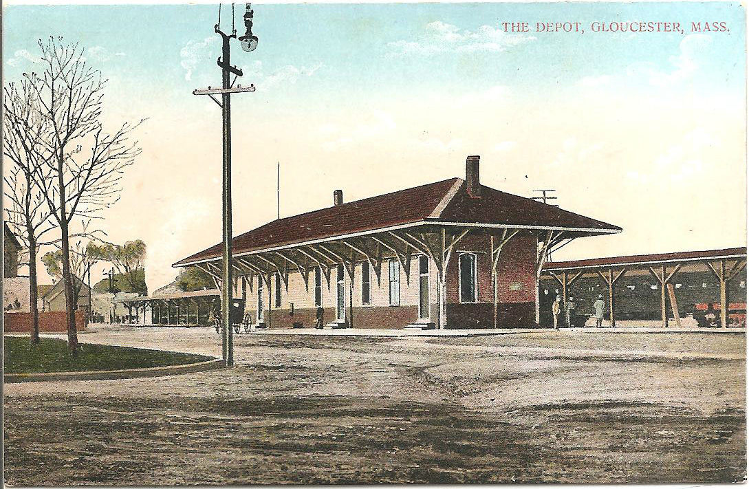 Early divided back postcard of Gloucester station